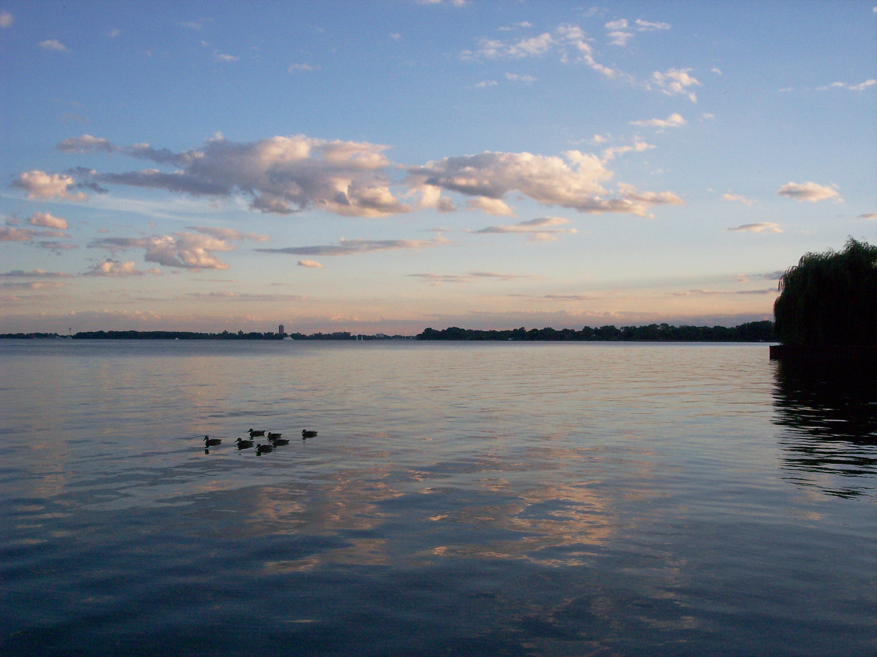 Lake Saint Clair as seen from the lakefront park in Grosse Pointe, MI